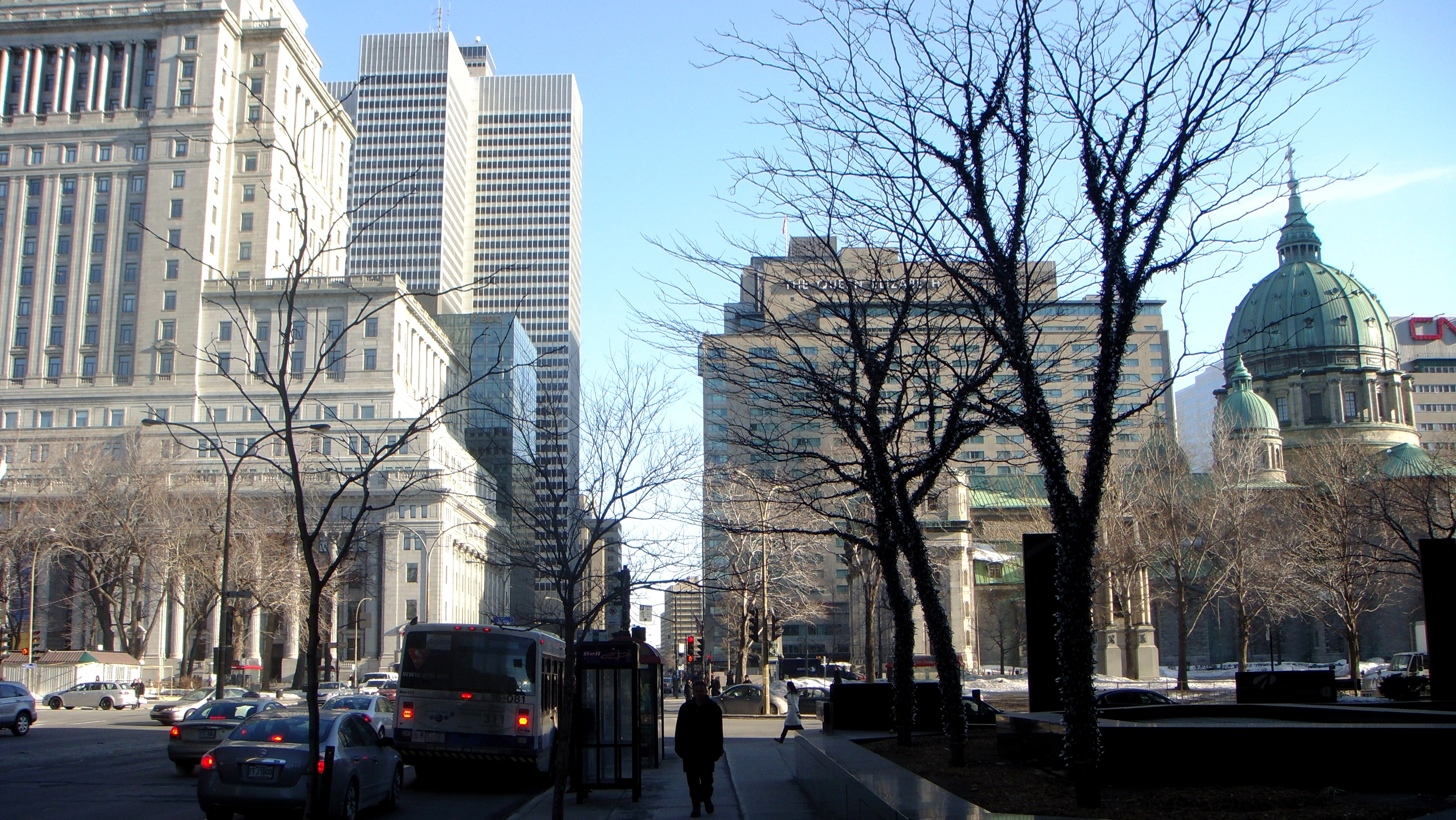 René-Lévesque Bd (Montreal)